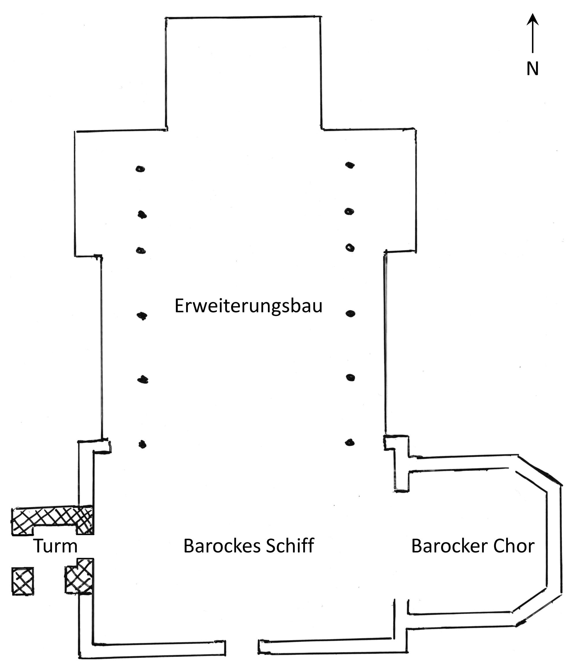 Ground plan of St. Afra church, Mühlenbach, Baden-Württemberg, Germany